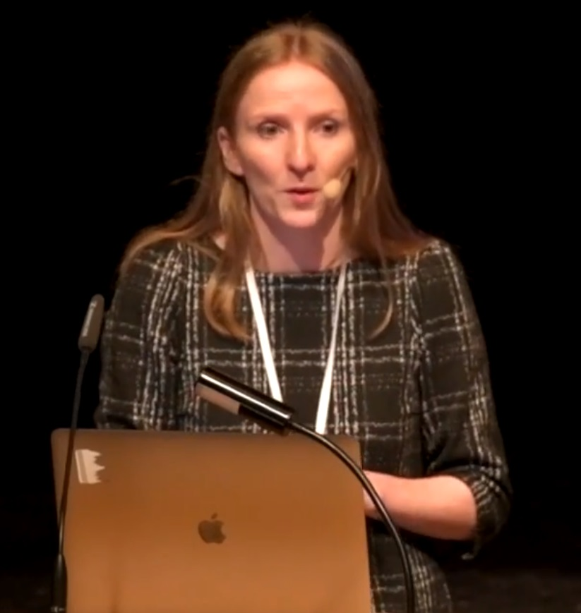 UK Research Institute in Secure Hardware and Embedded Systems RISE | Máire O'Neill | RWC 2018 Technical talks from the Real World Crypto conference series.